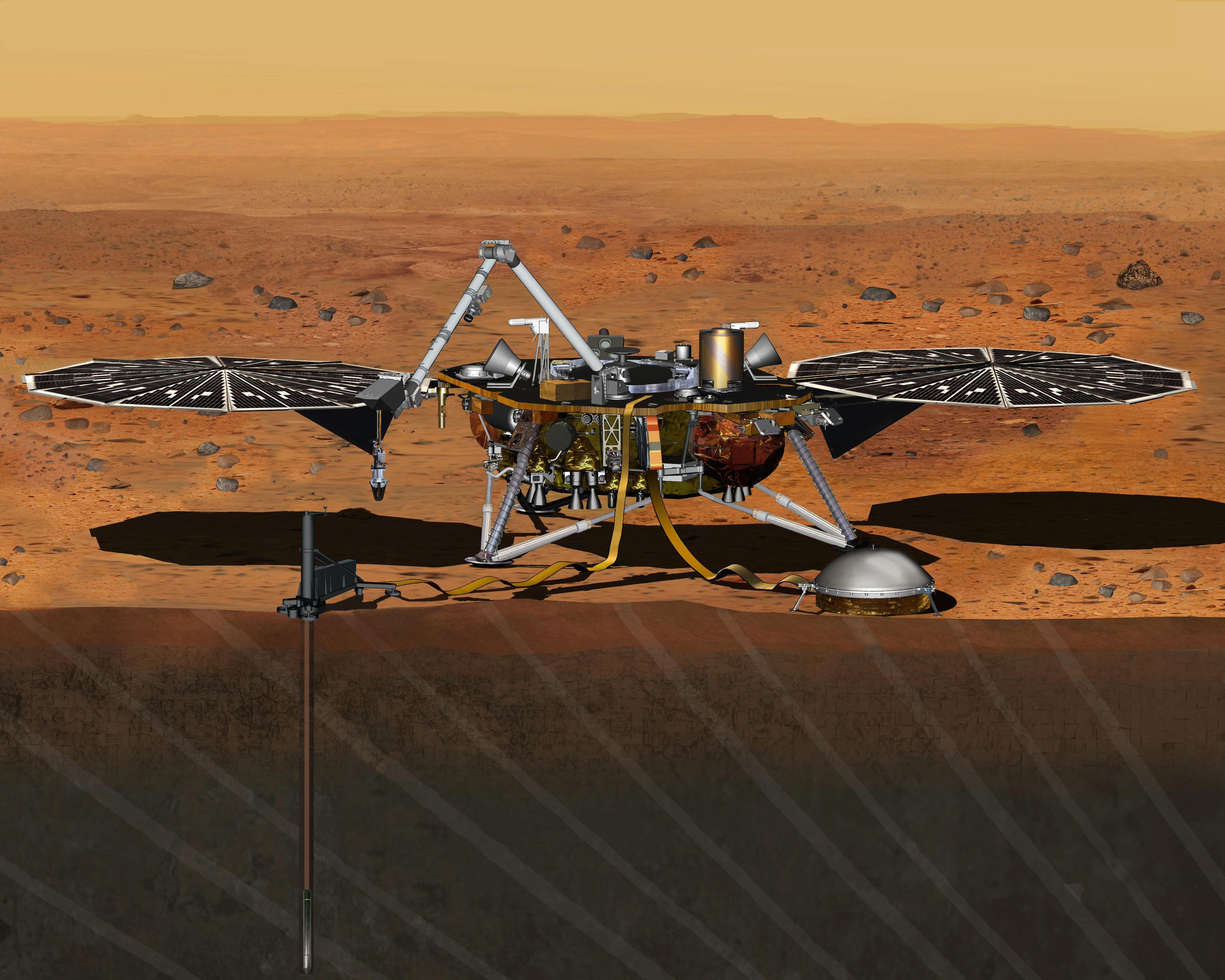 This artist's concept depicts the stationary NASA Mars lander known by the acronym InSight at work studying the interior of Mars. The InSight mission (for Interior Exploration using Seismic Investigations, Geodesy and Heat Transport) is scheduled to launch in March 2016 and land on Mars six months later. It will investigate processes that formed and shaped Mars and will help scientists better understand the evolution of our inner solar system's rocky planets, including Earth.